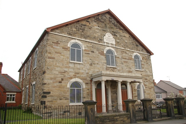 Jerusalem chapel, Rhosllanerchrugog The inscription on the wall reads: JERUSALEM ADDOLDY Y METHODISTIAID CALVINAIDD ADEILADWYD 1770 HELAETHWYD 1837